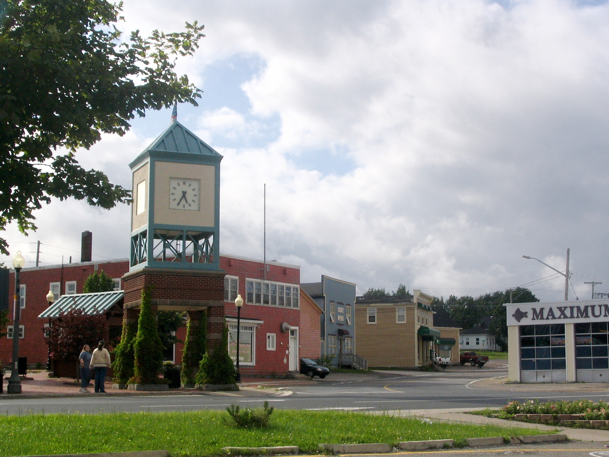 Corner of Principale street, George street and Albert street in Tracadie-Sheila, New Brunswick, Canada. The clock tower is named the Tour de Tracadie (Tracadie Tower).